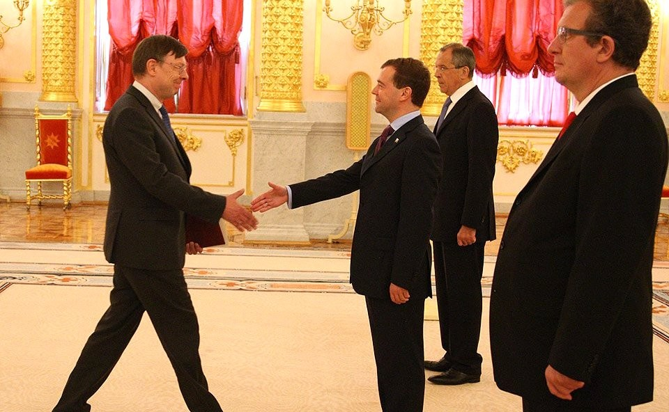 Presentation by foreign ambassadors of their letters of credence. Dmitry Medvedev receives a letter of credence from Ambassador of the Federal Republic of Germany Ulrich Brandenburg.